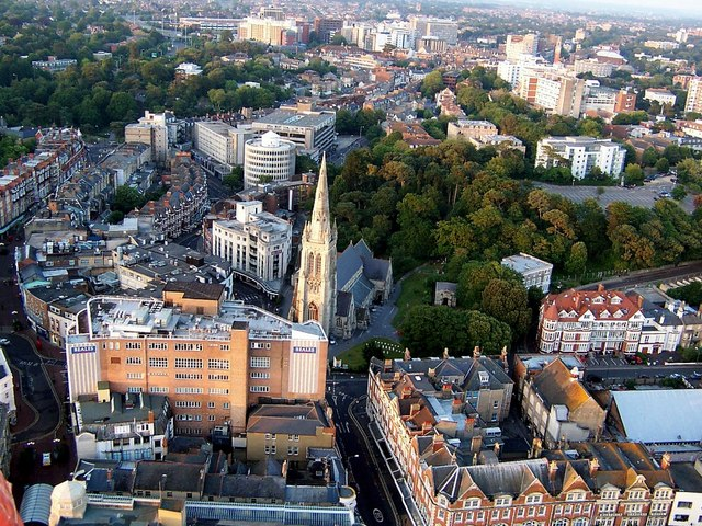 View from the balloon, facing the Rail Station Huzzah a fortunate accident in this photograph. In the foreground (going from bottom to top in a nearly straight line) one can see: St Peter's Church an currently unidentified cylindrical building (NOT the Roundhouse - that's seen at the top right corner of the photo but is hard to identify) a largish tuft of flats/houses and office buildings partially obscuring the ASDA and Rail Station The M35 can be seen peeking its way through the trees near the top left corner of the photo